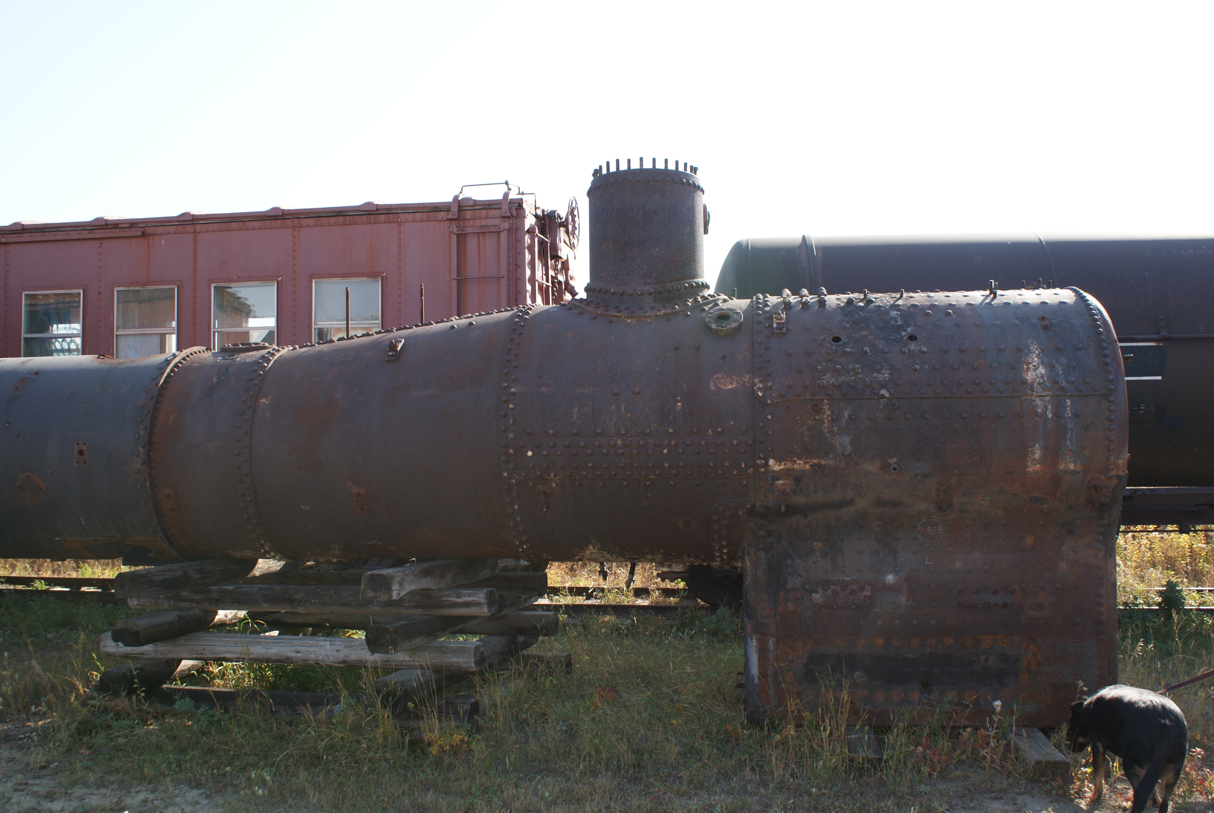 boiler for a CPR steam locomotive first used by Prairie Dog Central Railways Winnipeg made by Dubs of Scotland